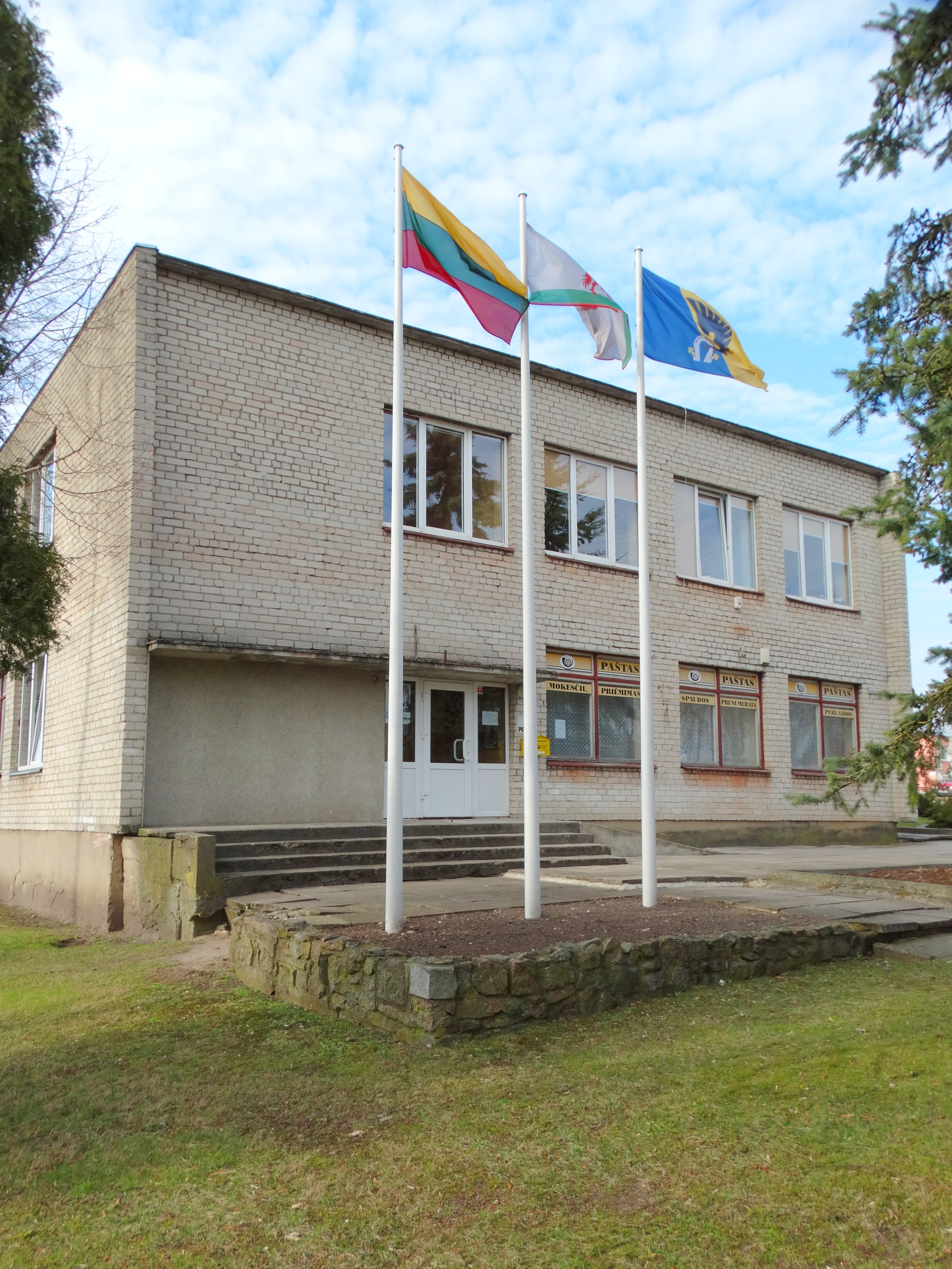 Eldership, Josvainiai, Kėdainiai district, Lithuania